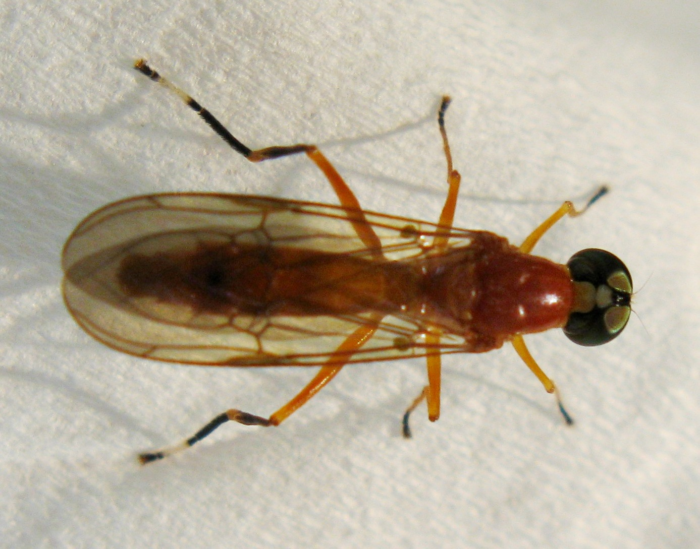 Stray specimen found in Somerset West, South Africa. Probably arrived in ripe fruit. About 25 mm long. Alien-looking, but glossily handsome.